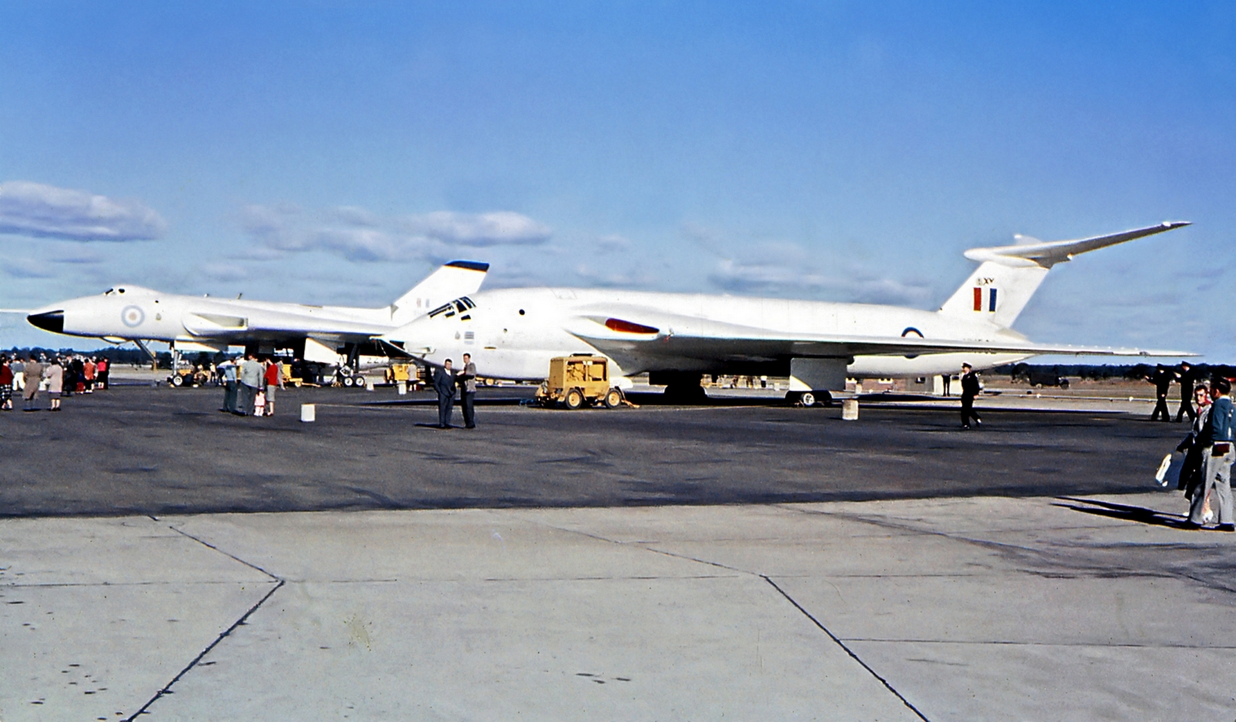 1964 - Avro 'Vulcan' & Handley Page 'Victor' nuclear bombers at Richmond Air Show, NSW